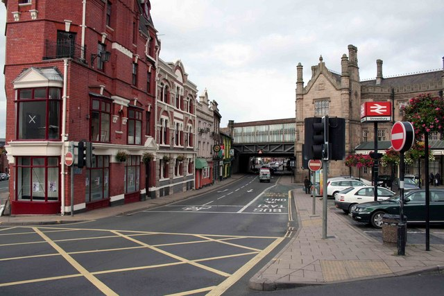 One way traffic under this bridge Outside the entrance to Shrewsbury Station its one way traffic , watch out as you cross the road from the pub to the station if you are like me and have had a few!